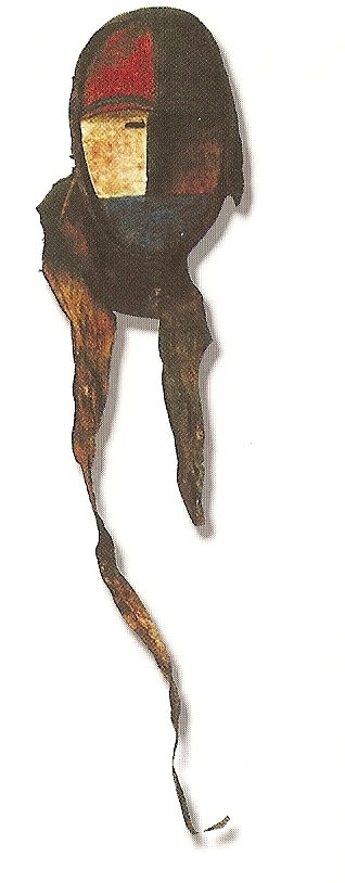 Bodi gabonese traditionnal mask from the Baduma ethny